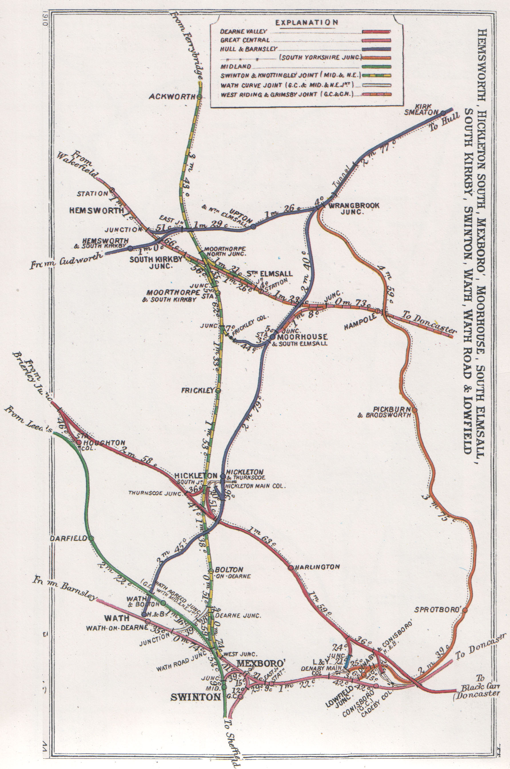 Railway Junctions in Hemsworth- Hickleton South- Mexboro'- Moorhouse- South Elmsall- South Kirkby- Swinton- Wath- Wath Road & Lowfield pre grouping